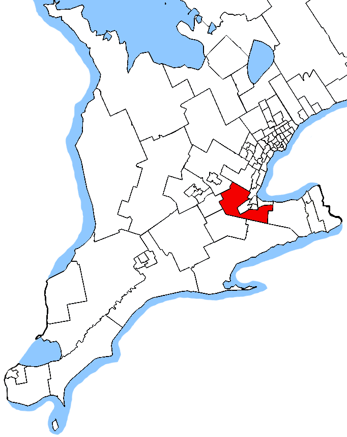 This is a map of southwestern Ontario showing the location of the Flamborough—Glanbrook federal electoral district.